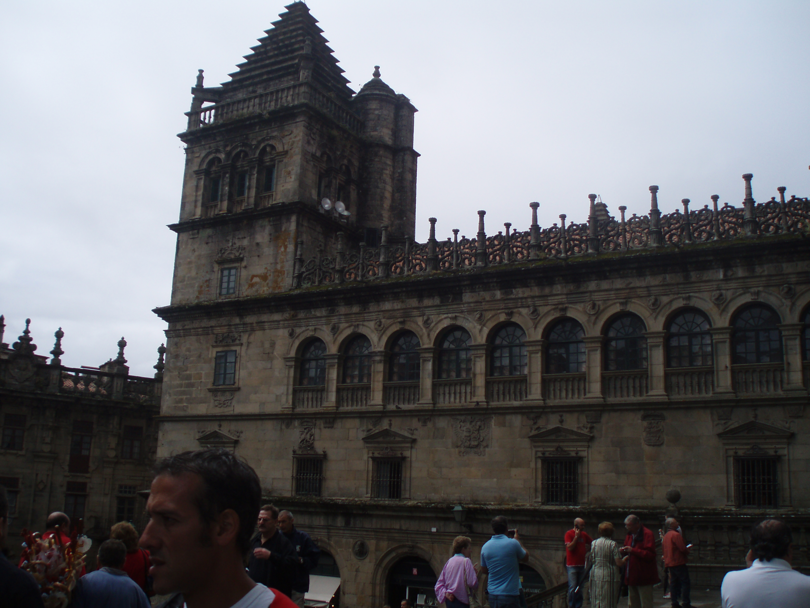 Tower of Treasure. Cathedral of Santiago of Compostela, in Galicia. (Spain).